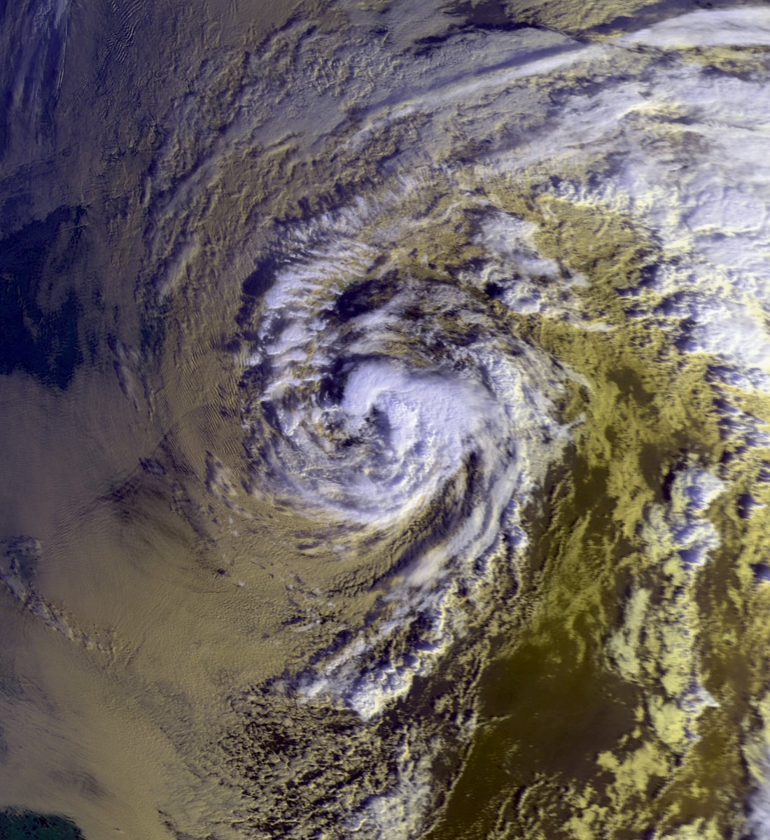 Hurricane Gordon near peak intensity on November 18 at 1308 UTC. This image was produced from data from NOAA-12, provided by NOAA.